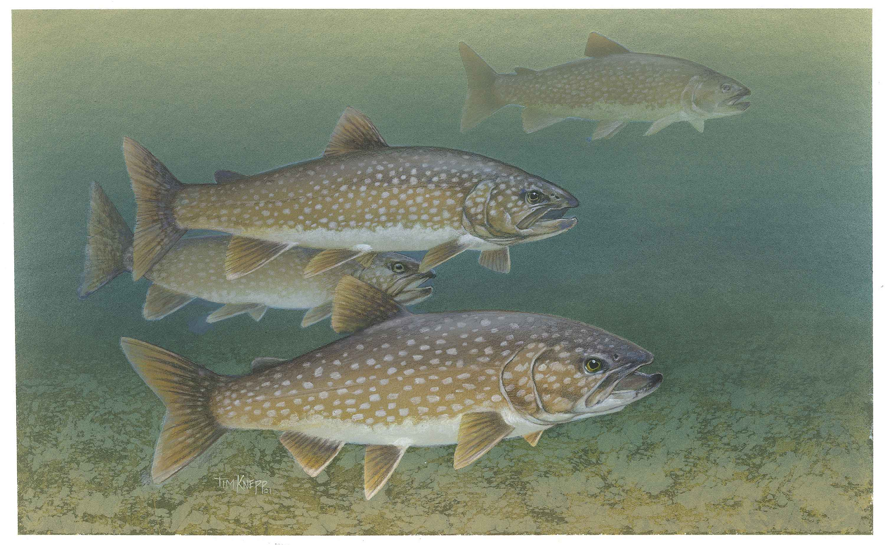 Image title: Lake trout fishes salvelinus namaycush Image from Public domain images website